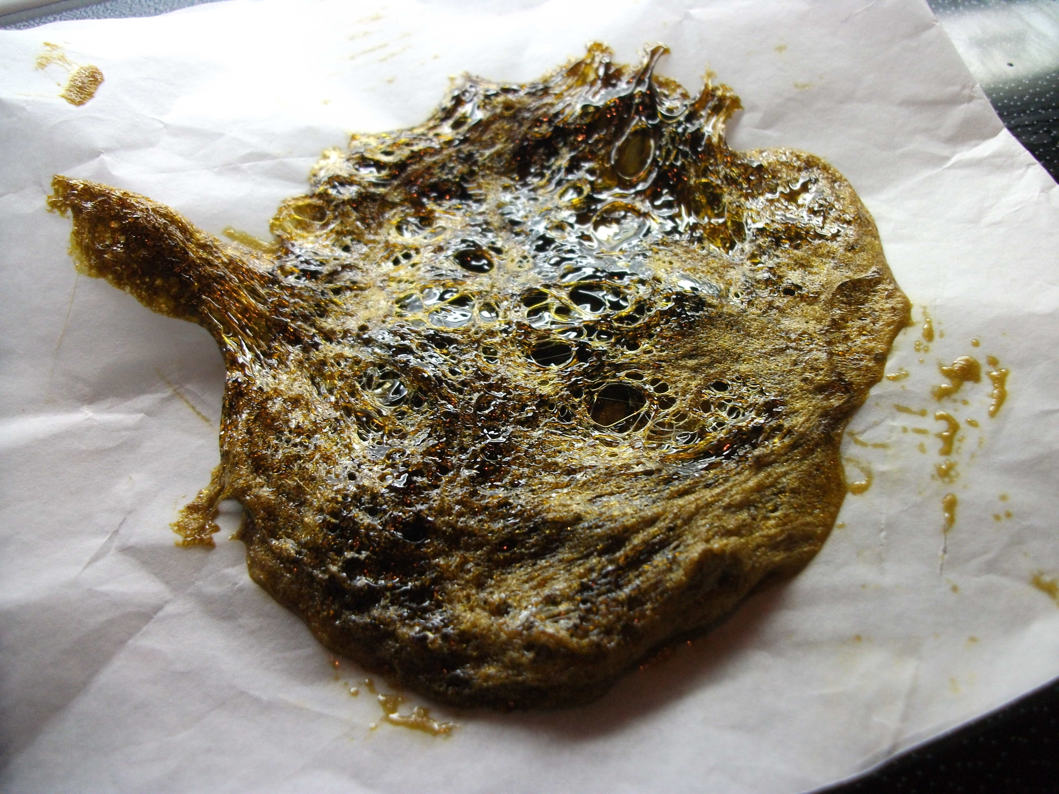 all done with cannabis sativa exterior trimmings